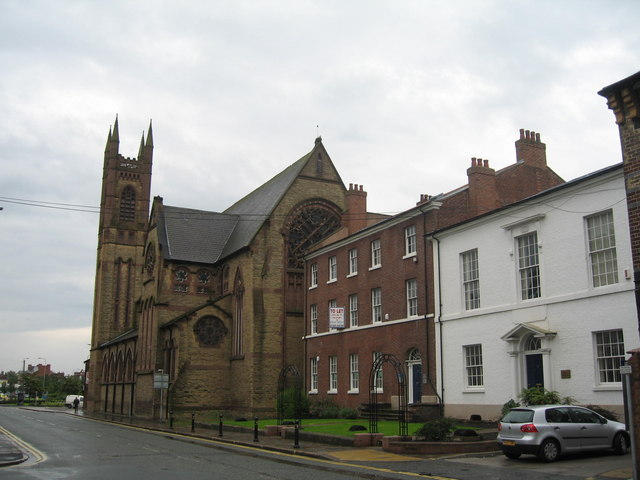 St Mary and Buttermarket Street The Roman Catholic church of St Mary in Buttermarket Street was the last church to be designed by E.W. Pugin before his early death in 1875 at the age of 40. The church was opened in 1877. Buttermarket Street contains several attractive Georgian buildings and in 1972 was designated a conservation area.